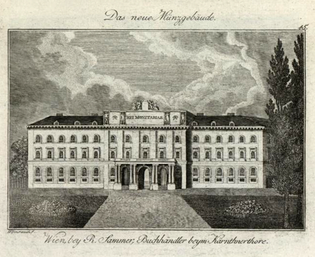 Hauptmünzamt (main mint office), Vienna. Copper engraving.